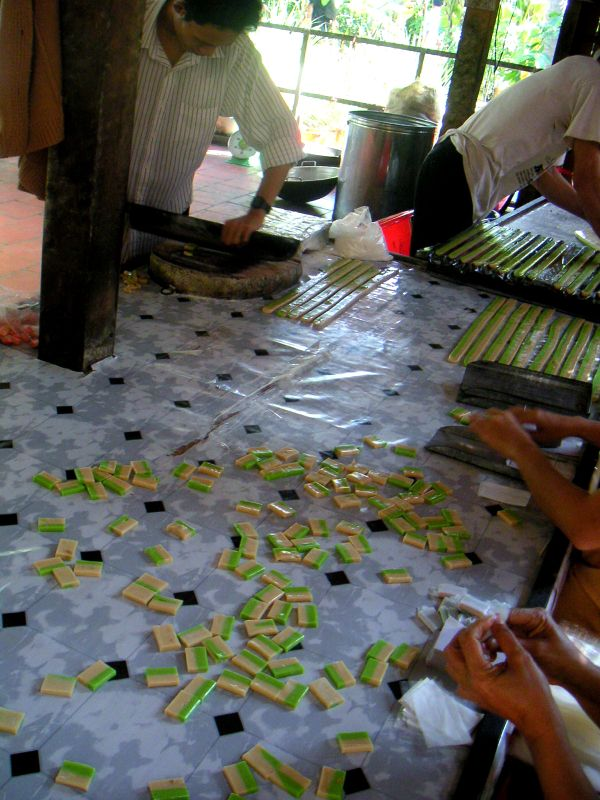 Coconut candy making in the Mekong delta, Vietnam.